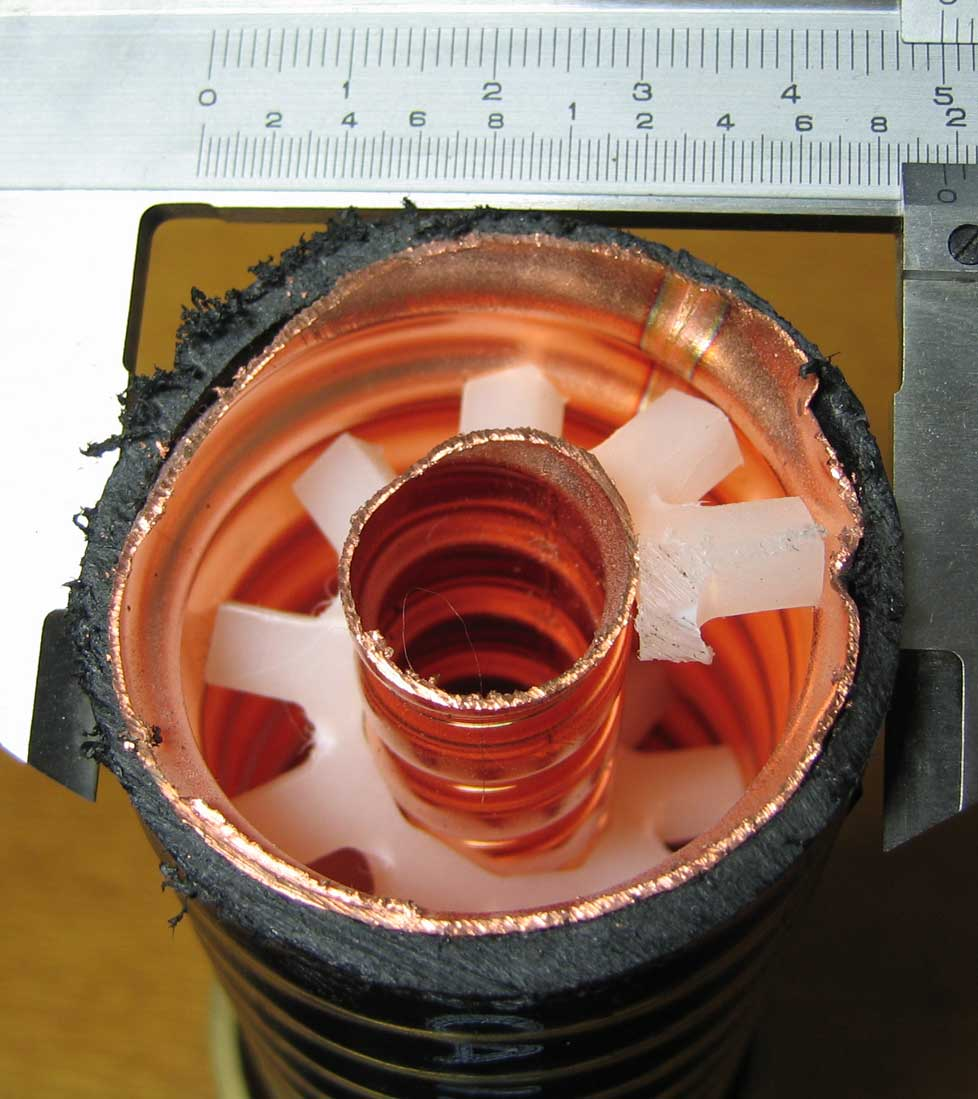 1 and 5/8 of an inch hard line. Corrugated rigid coaxial cable with air dielectric (nylon support).